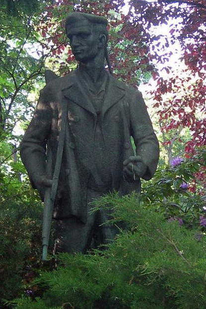 East Berlin - Statue of a revolutionary soldier in the German revolution of 1918-1919 (by Hans Kies).